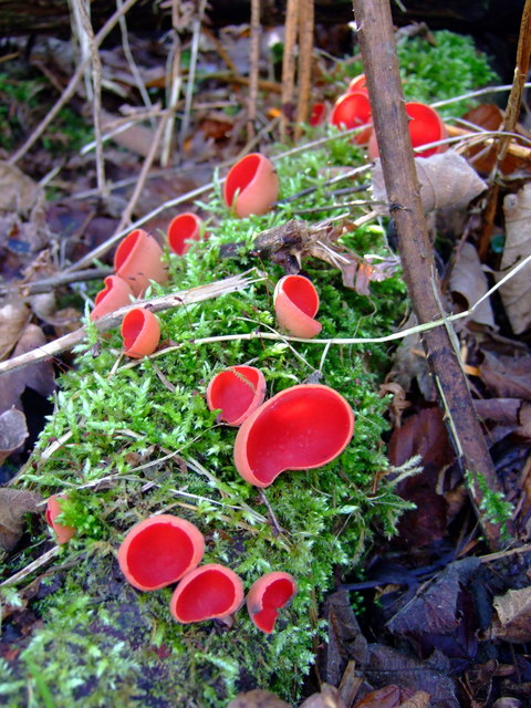 Scarlet elf cup (Sarcoscypha coccinea) Not uncommon but truly a joy to behold on late winter walk, these tiny blood- red cups are almost impossibly bright in colour. Said to be edible but I have never had the heart to pick them.